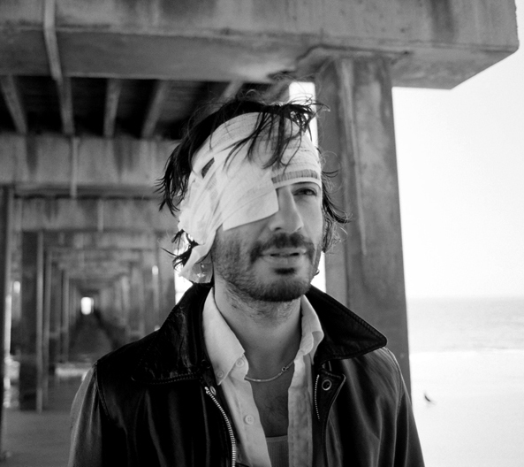 Portrait of Jason Sebastian Russo taken during the filming of a music video for Hopewell's "Island," directed by Art Boonparn, Coney Island, Brooklyn. Photo by Alexandra Marvar